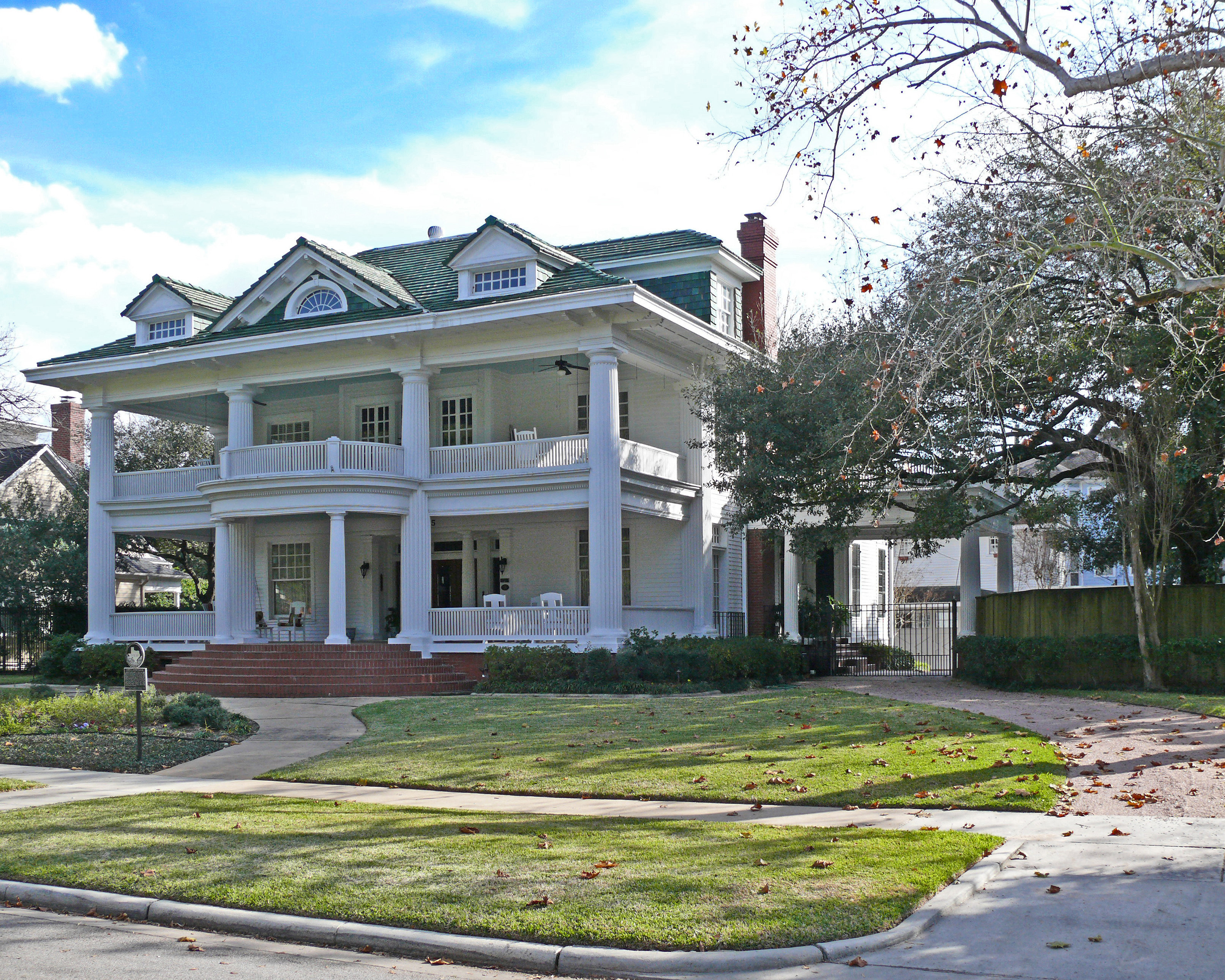 The James L. Autry House is on Courtlandt Place, in Houston. Courtlandt Place is a small gated community comprised of a single one block long private street near Downtown Houston. It was originally created for and populated by Houston's elite. A total of 18 mansion-like homes line the two sides of the street. Virtually every home has a historical marker and eleven of the 18 homes are on the National Register of Historic Places. Mississippi native James L. Autry moved to Corsicana in 1876. There he studied law and held civic offices at the time of the first oil discoveries in Texas. He was chief counsel for the Texas Co. (later Texaco) and a pioneer in the new field of petroleum law. Autry commissioned Sanguinet and Staats to design this home, which was constructed in 1912. The Neoclassical design features a double balustraded gallery and large fluted Doric columns. Also prominent are a porte-cochère (right), fernery (sunroom), and a hipped Lodovico tile roof. The rear garage has upstairs servants quarters.